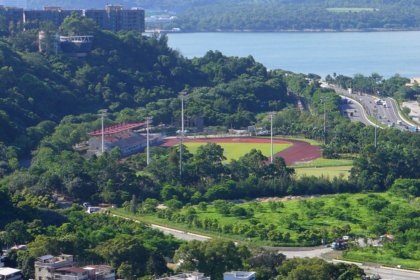 HKEDU Tai Po Sports Centre